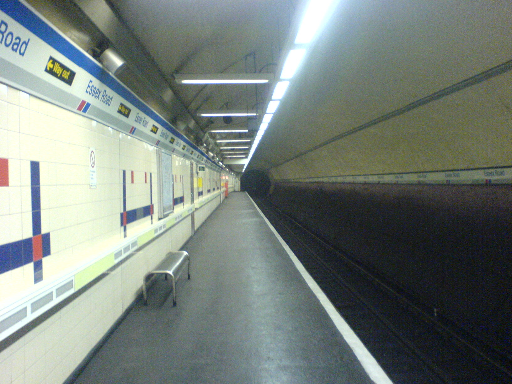 Southbound platform of Essex Road station, London.